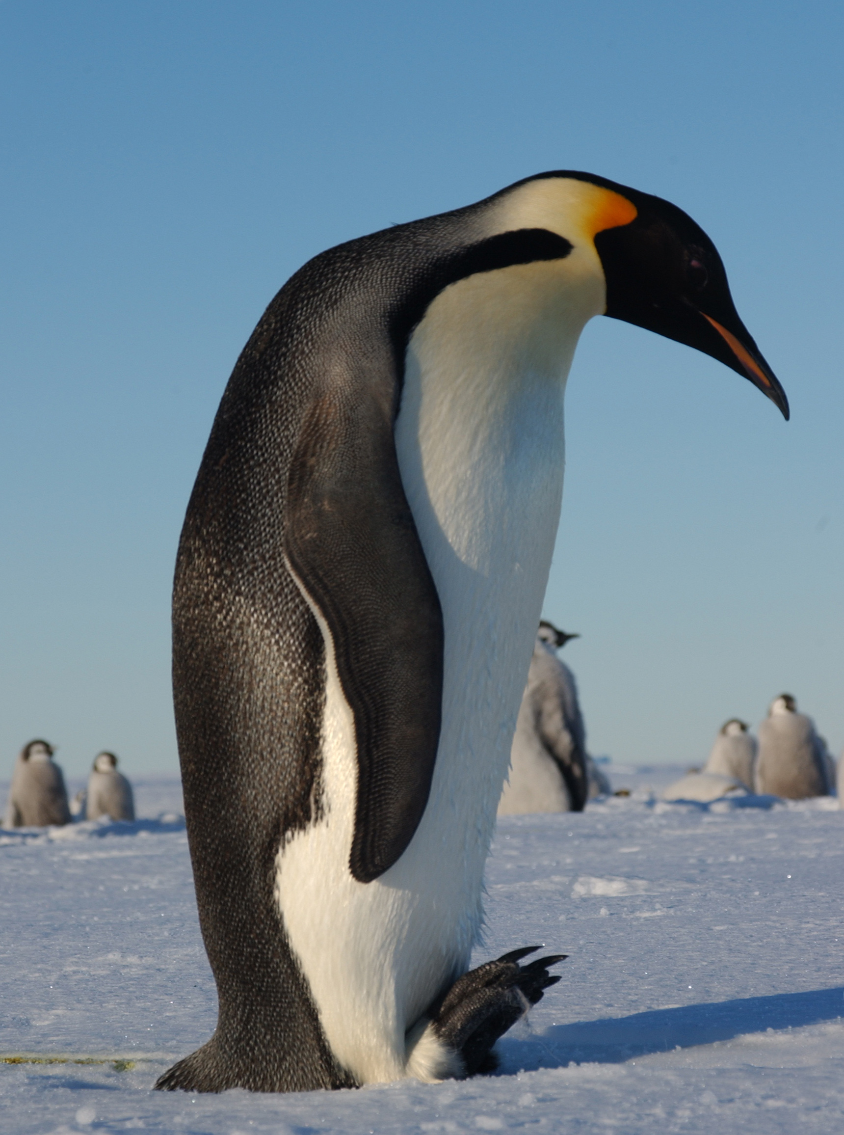 Emperor Penguin, Atka Bay, Weddell Sea, Antarctica